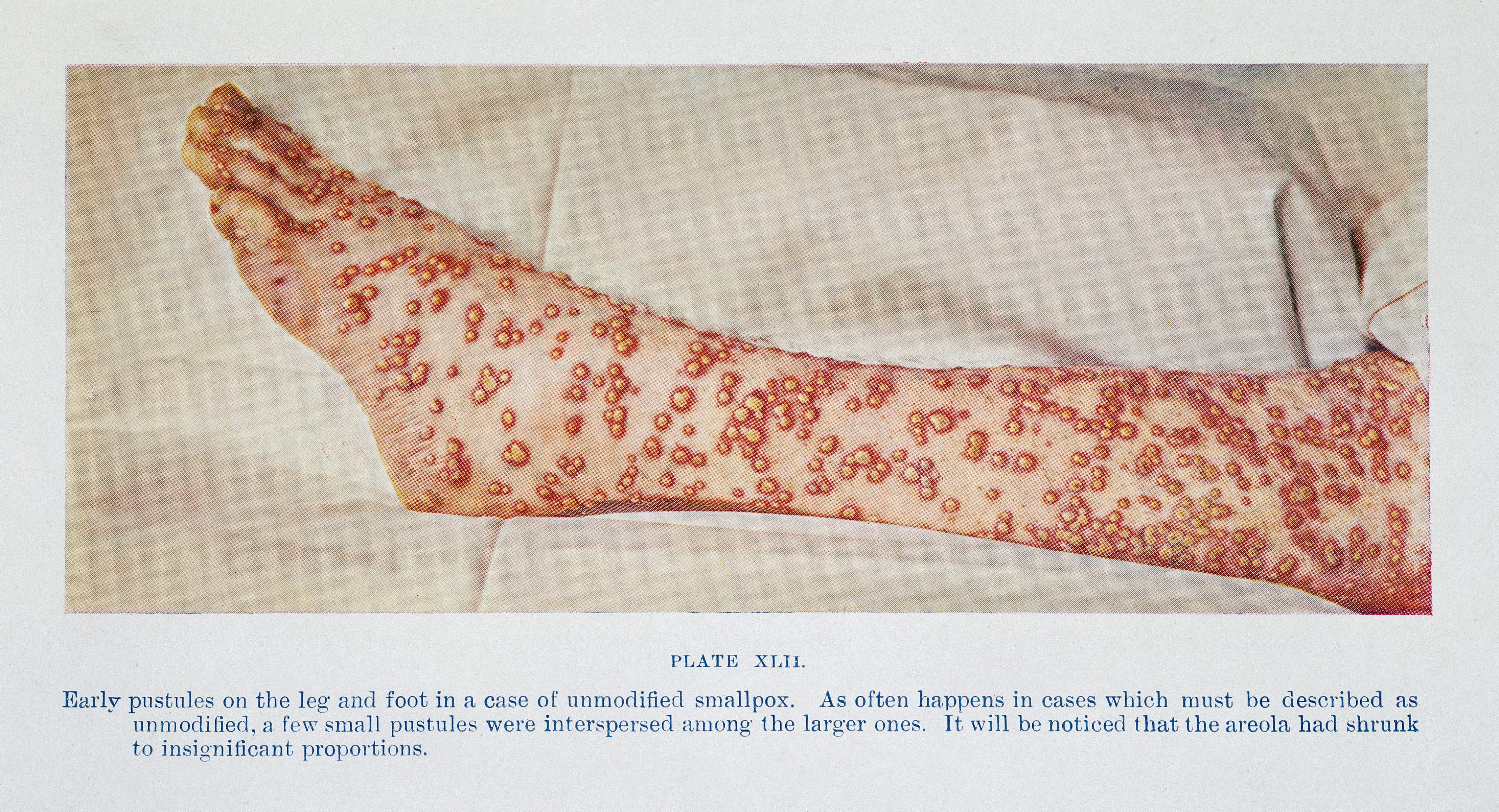 WC585 1908R53d "The Diagnosis of Smallpox", Ricketts, T. F, Casell and Company, 1908 Plate XLII, Early pustules on the leg and foot in a case of unmodified smallpox. Wellcome Images Keywords: Leg; wc585 1908r53d; Smallpox; pustules